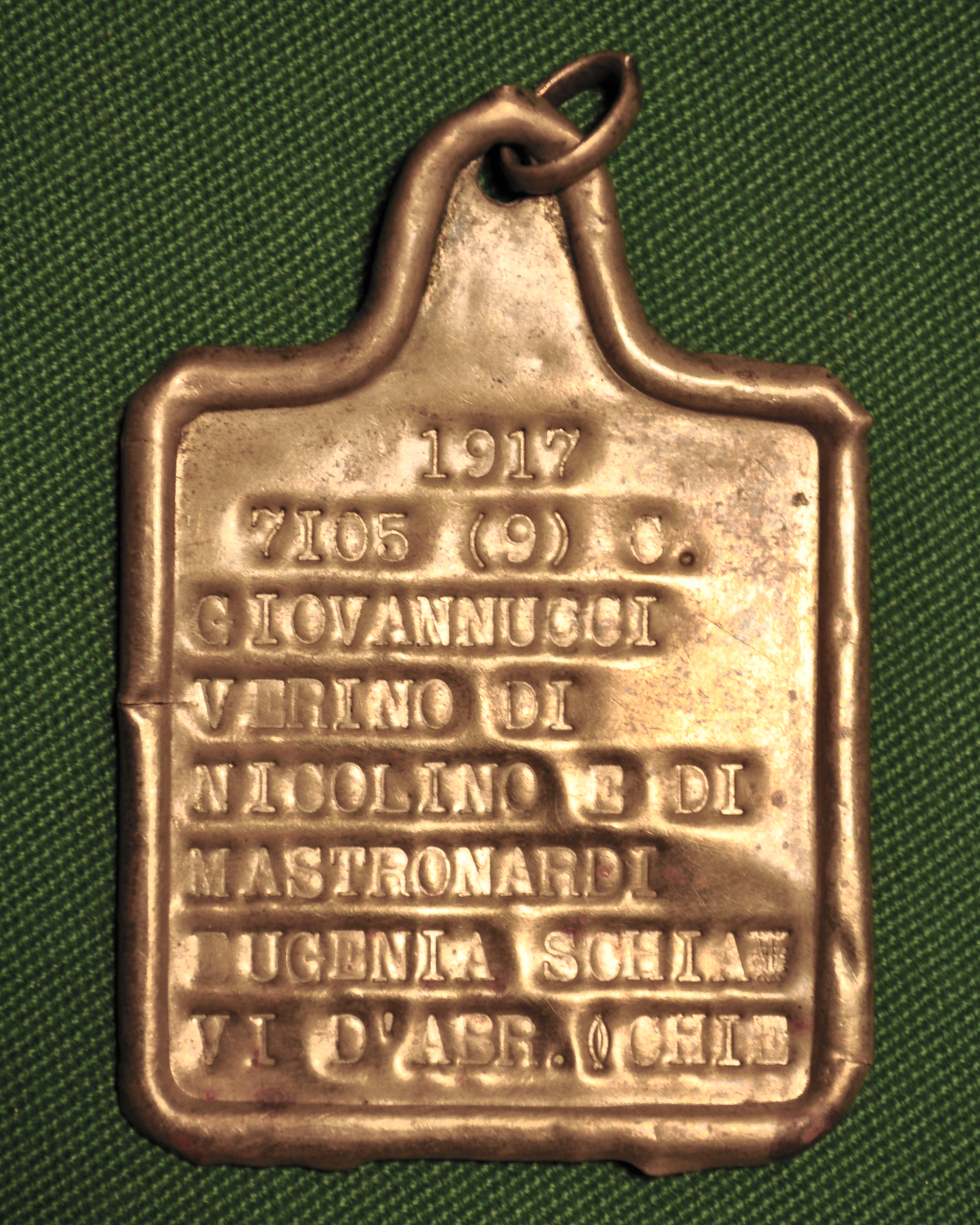 Military dog tag Italy World War II (piastrina identificativa forze armate italiane seconda guerra mondiale) belonging to Giovannucci Verino, lists year of birth, identification number, religion, name of soldier, parents, and place of residence.